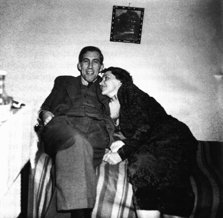 The Finnish deputy (MP) Mauri Ryömä (1911–1958) and his wife writer Elvi Sinervo (1912–1986).